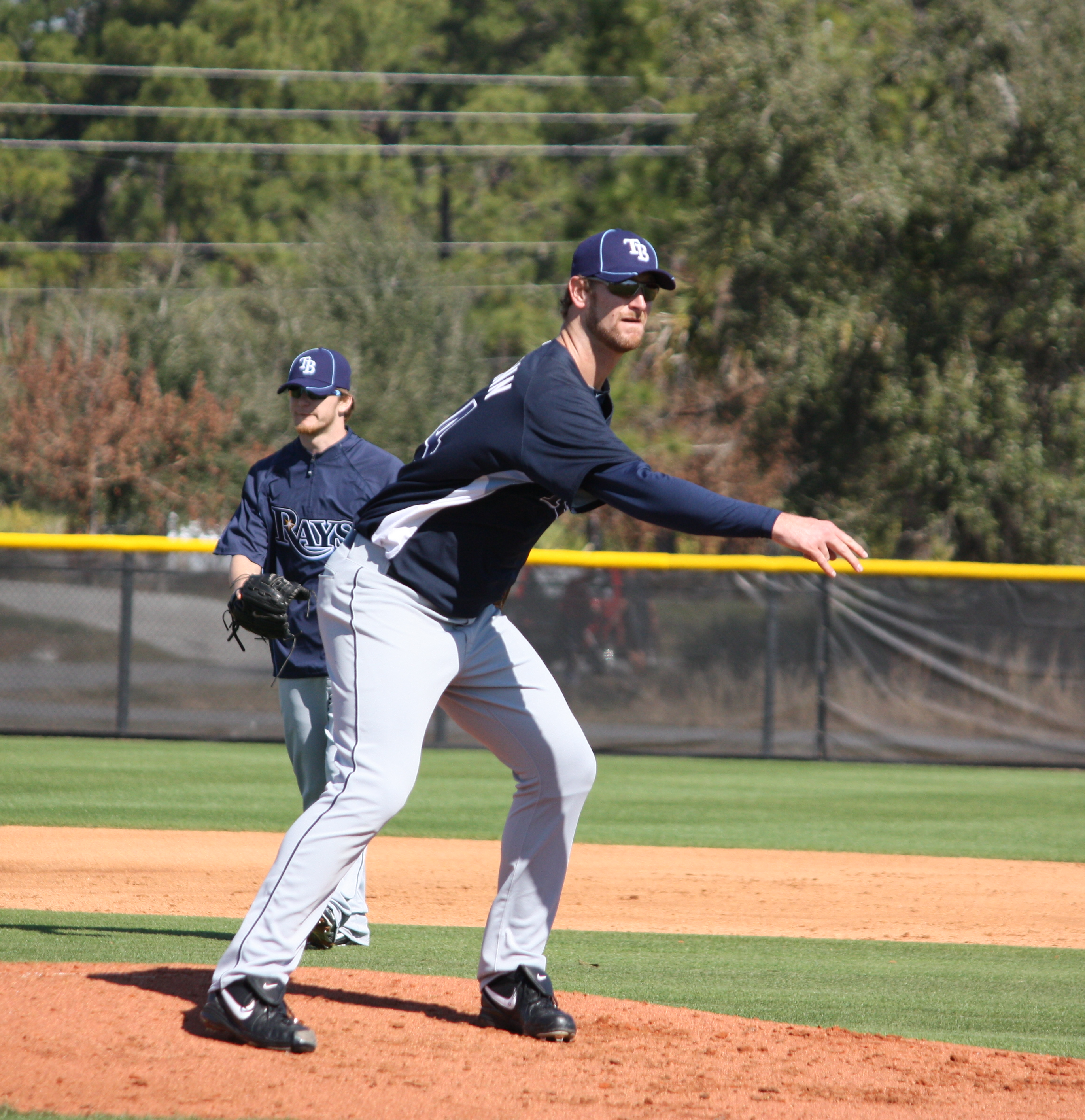 Jeff Niemann of the Tampa Bay Rays doing first base drills during spring training workouts at Charlotte Sports Park in Port Charlotte on February 21, 2010.